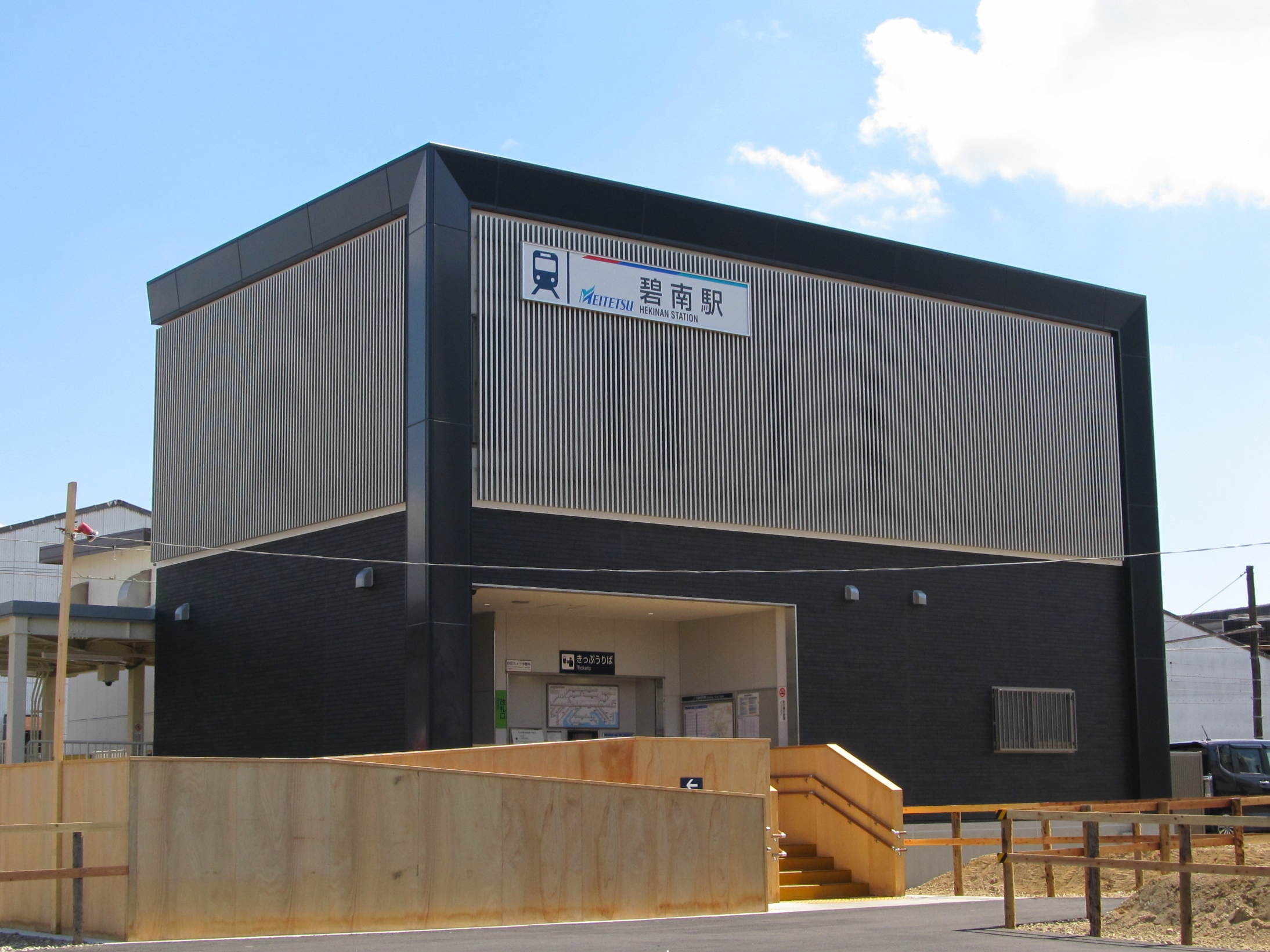 Nagoya Railroad Mikawa Line Hekinan Station Building